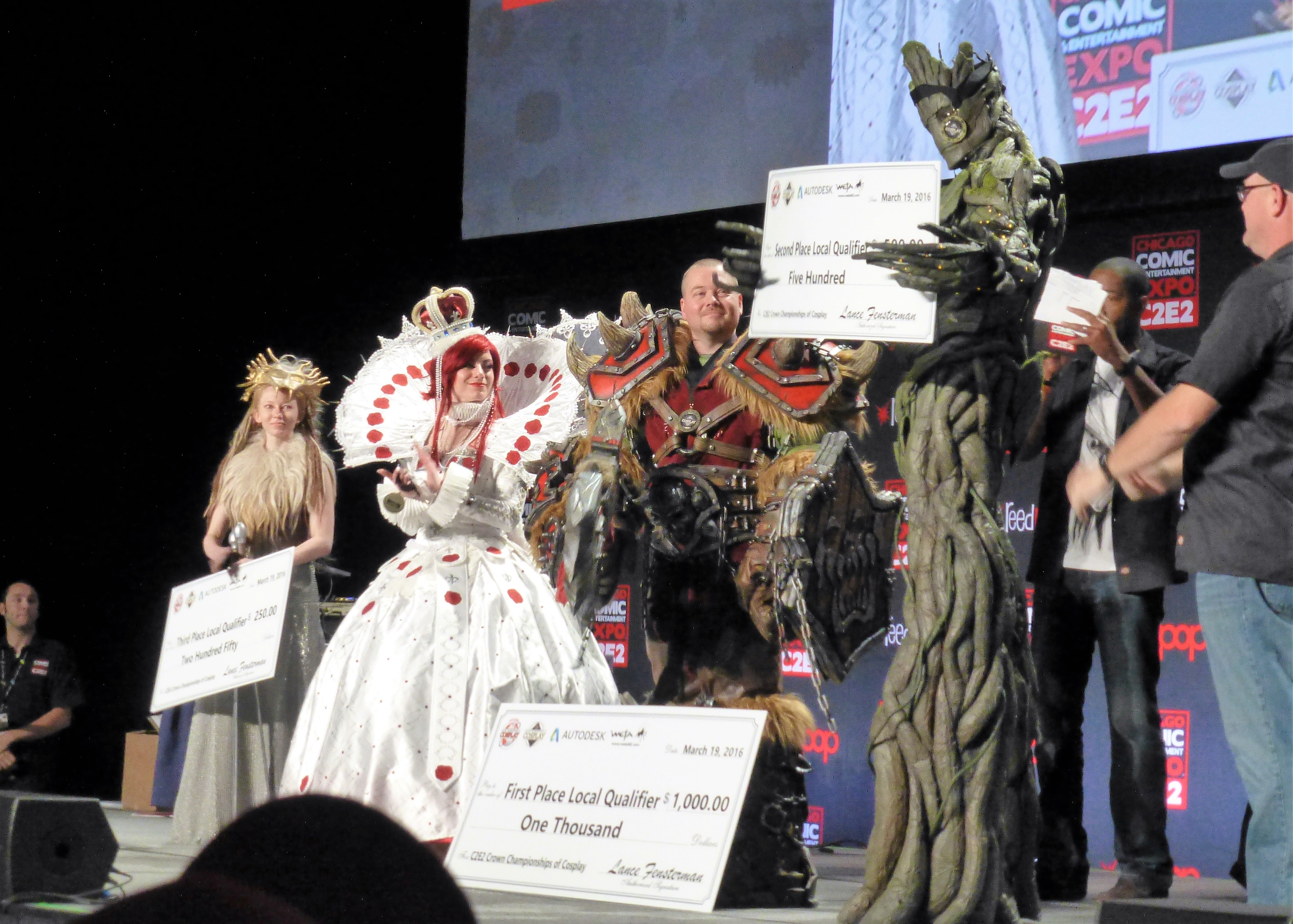 Category winners group shot Third Annual ReedPOP Crown Championships of Cosplay held at Chicago Comic & Entertainment Expo (C2E2) 2016.